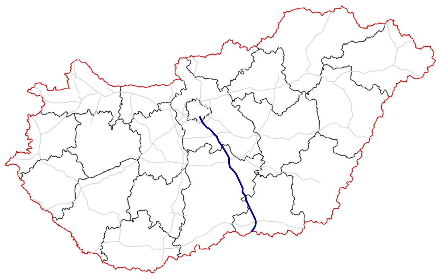 Traject the M5 Motorway, Hungary (Blue: in use, Light blue: under construction, Green: planned)